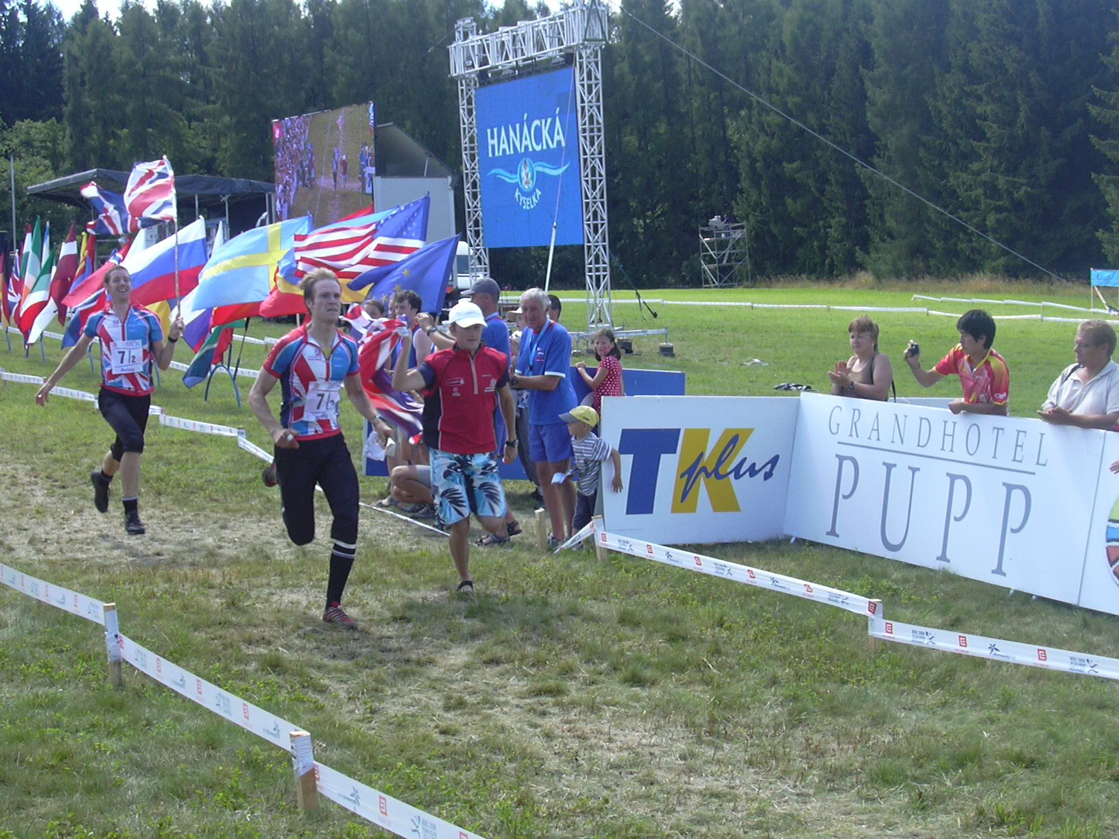 World Orienteering Championships 2008 in Olomouc, Czech Republic. On photo Gold Relay United Kingdom. Jon Duncan, Jamie Stevenson, Graham Gristwood.